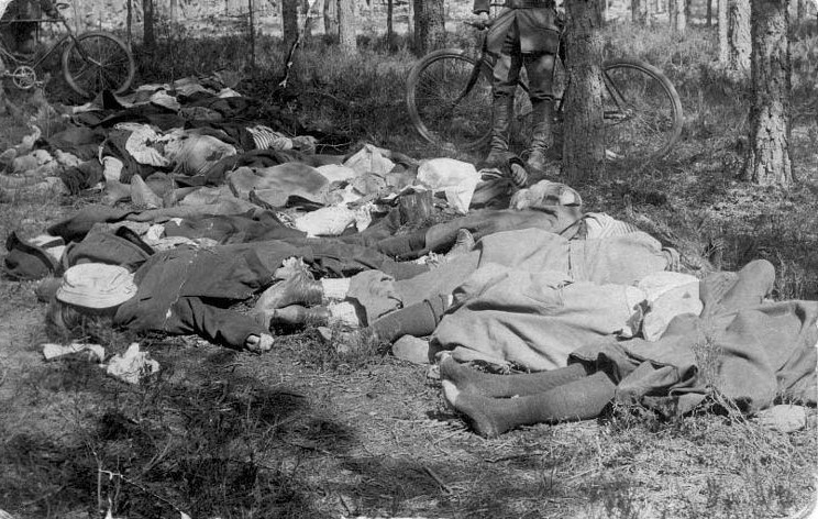 1918 Finnish Civil War: Executed members of the Female Red Guards in Hennala prison camp in Lahti, early May 1918. More than 200 female fighters were executed by the White Guards youngest of them being only 14-year-old.